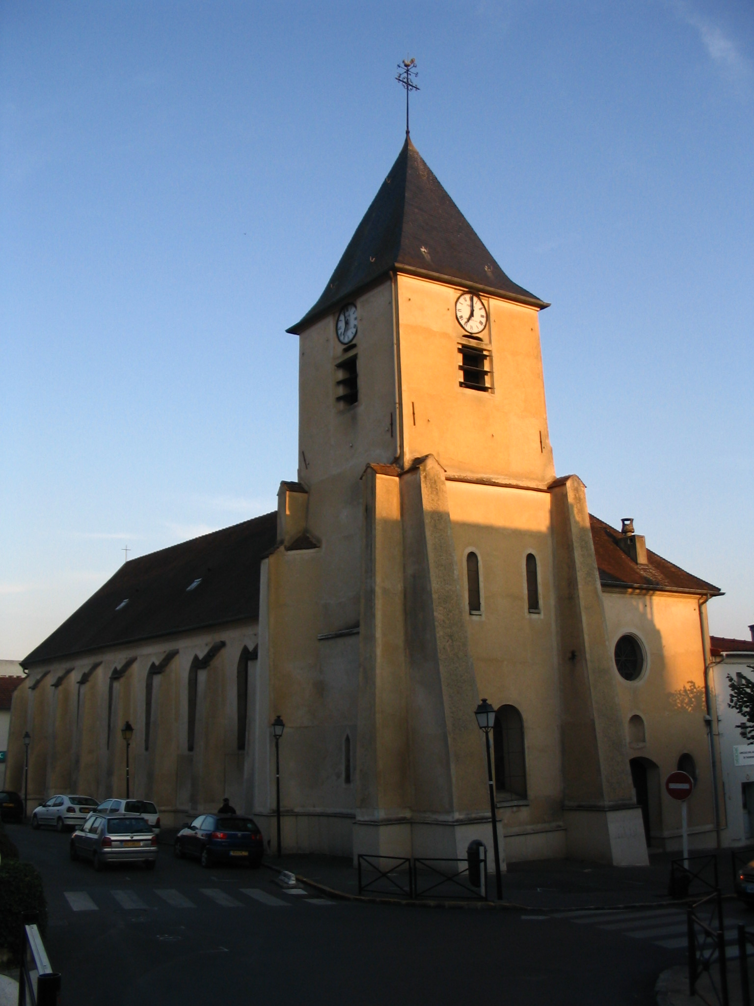 The Roman Catholic church of Thorigny-sur-Marne, Seine-et-Marne, France.